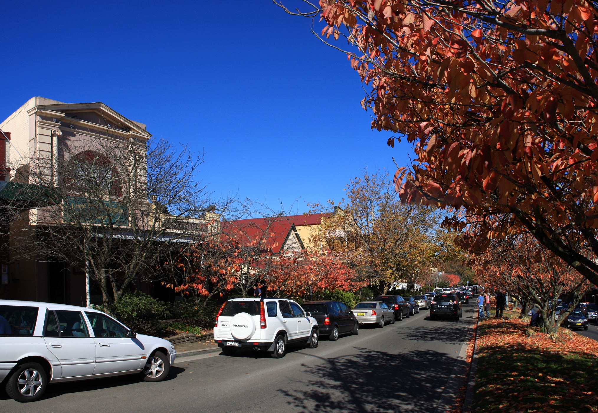 Leura a town in the Blue Mountains